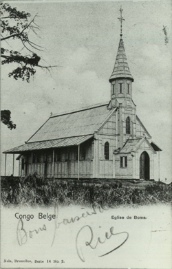 The church of Boma, designed by the belgian architect Joseph Danly, is a building structure, frame and metal siding, built of iron, 1889-1890, coming from Belgium. It is the oldest church of DRC.